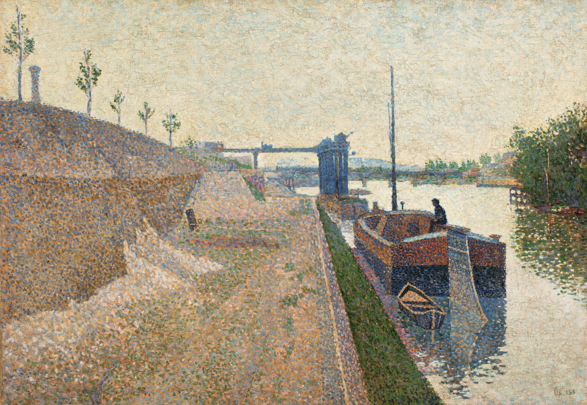 Quai de Clichy, Temps gris by Paul Signac